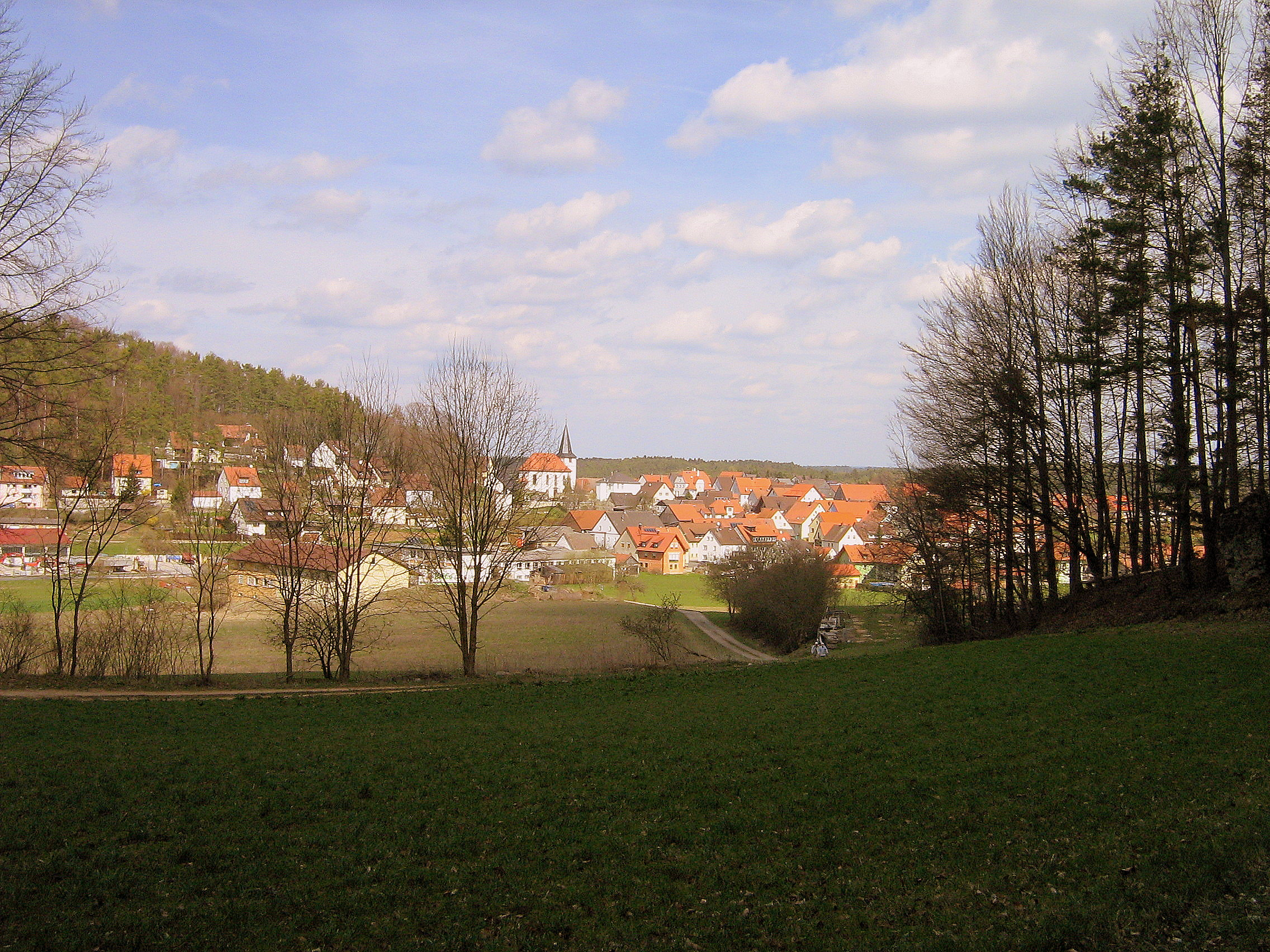 village Plech (Franconia-Germany)